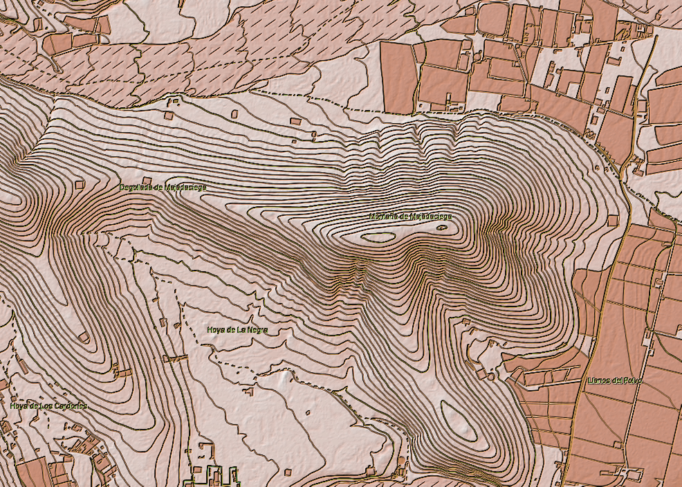 Masaciega relief map,made on wilbur,gimp and paint the topografic lines